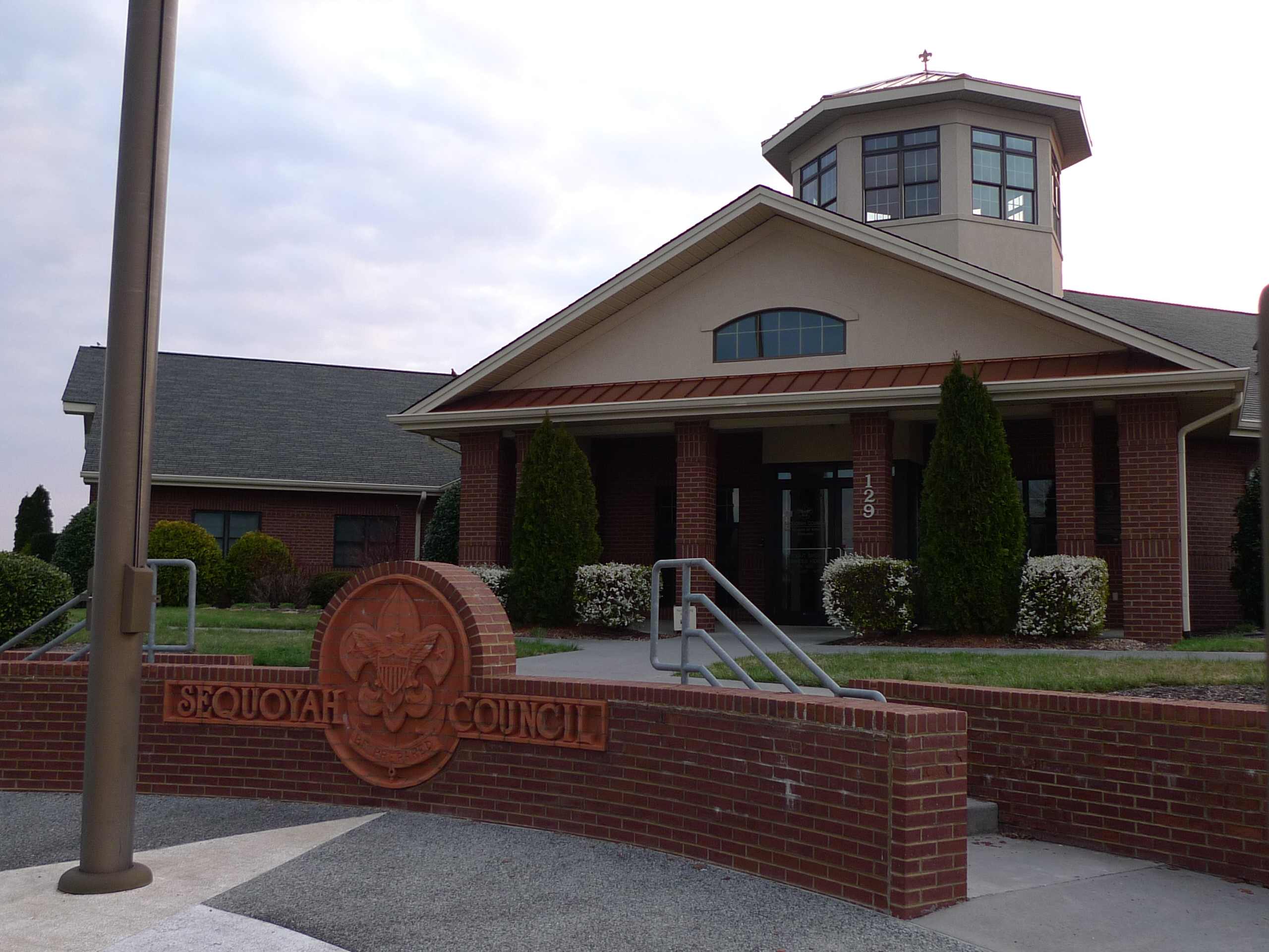 Sequoyah Council in Johnson City, Tennessee